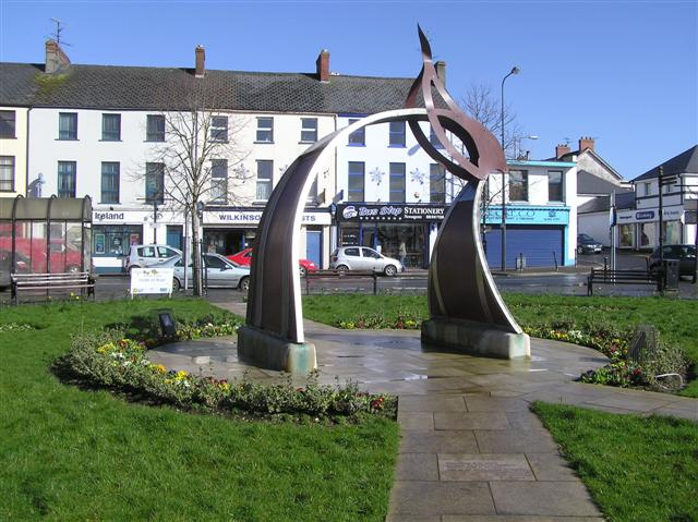 Sculpture, Castlederg. It is located at the green at the town centre.